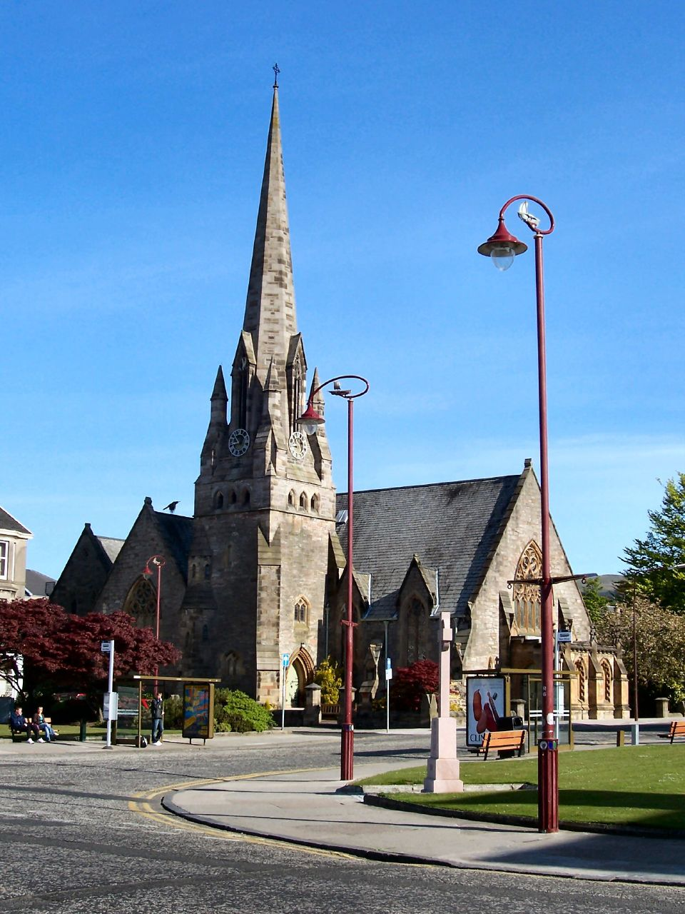 Colquhoun Square, Helensburgh